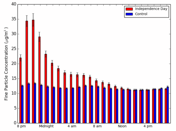 US-average hourly concentration of atmospheric fine particulate matter (PM2.5, with particle diameter less than 2.5 micrometers) during the 24-hour period beginning 8 pm on July 4, compared with 4 other early July dates (considered as control cases). Figure taken from: Seidel, D. J. and A. N. Birnbaum, 2015: Effects of Independence Day fireworks on atmospheric concentrations of fine particulate matter in the United States, Atmospheric Environment, 115, 192-198